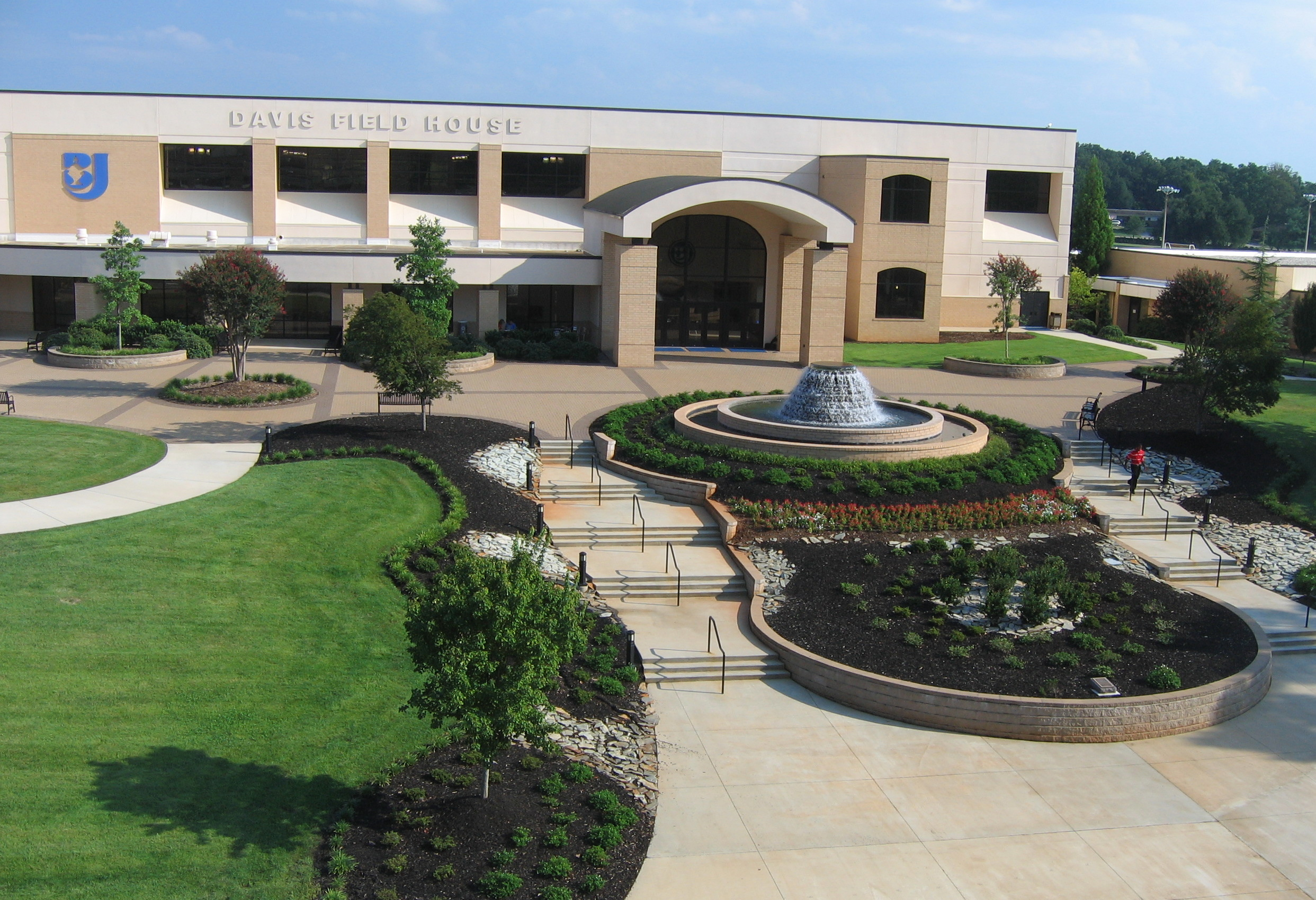 Davis Field House, Bob Jones University, Greenville, South Carolina, United States.